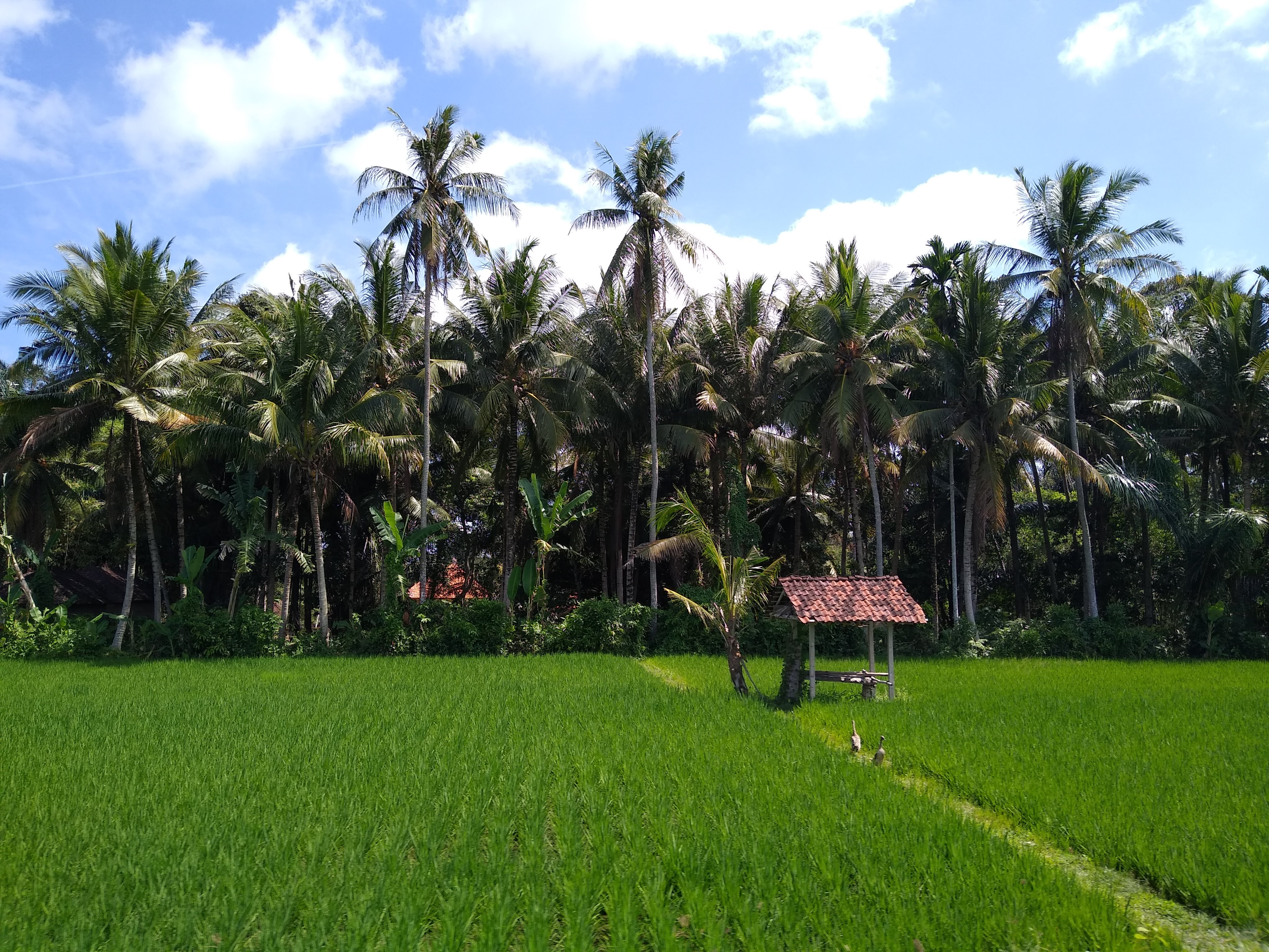 A farm in Abiansemal District, Badung Regency, Bali.